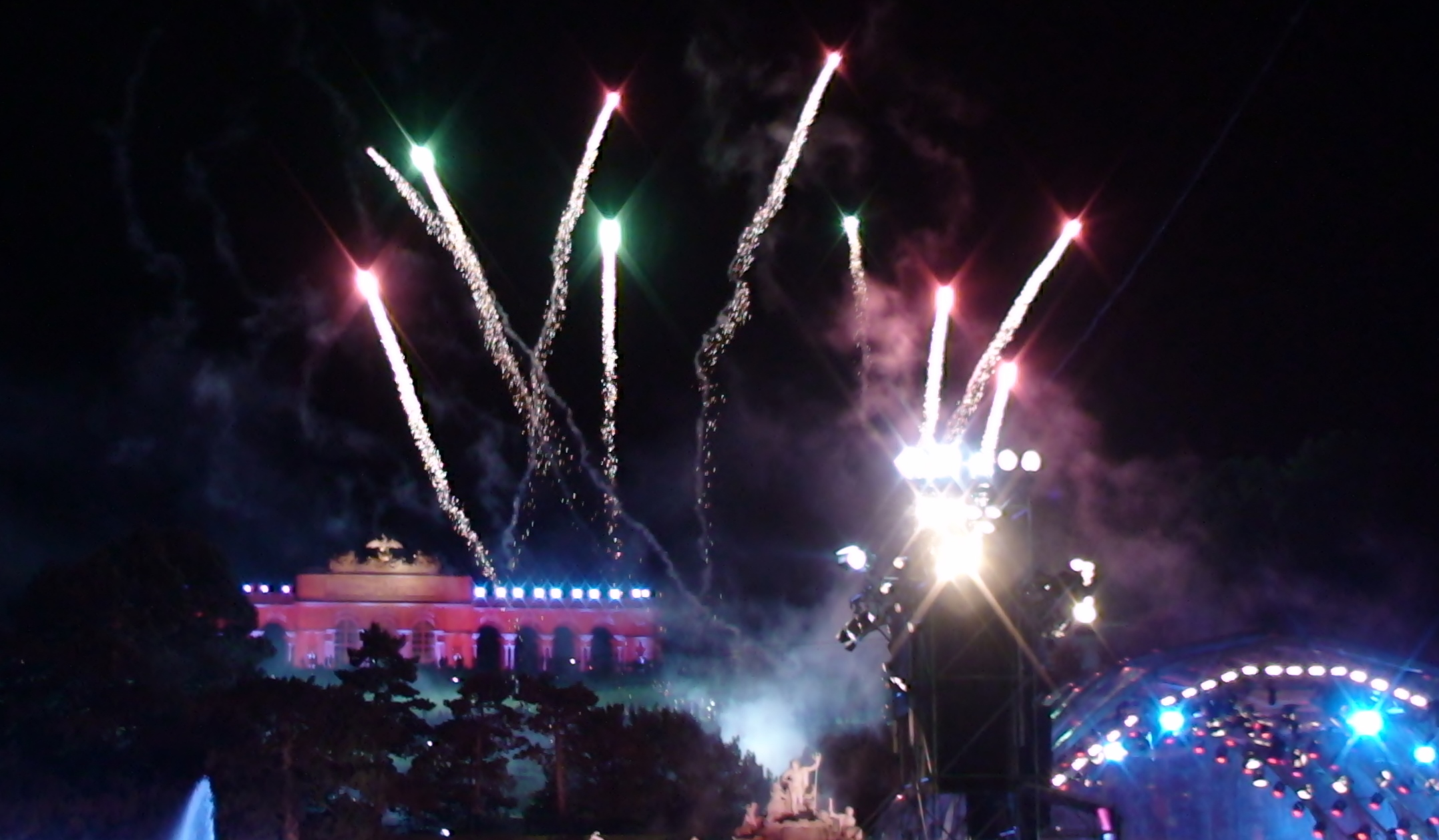 Fireworks fired during the encore of the Wiener Philharmoniker Summer Night Concert in Schoenbrunn